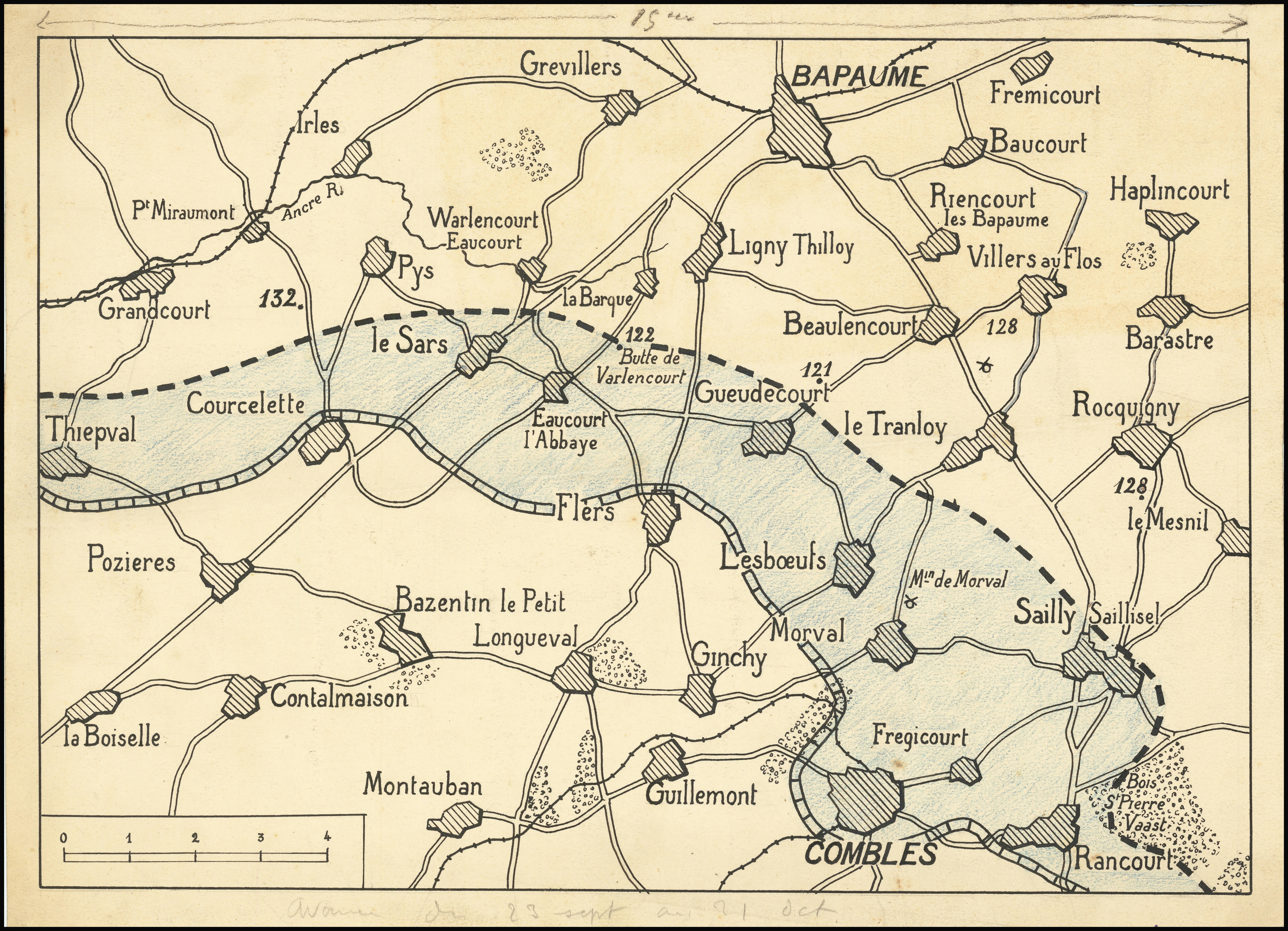 Hand-drawn map of the Somme Front of World War I between Theipval and Combles